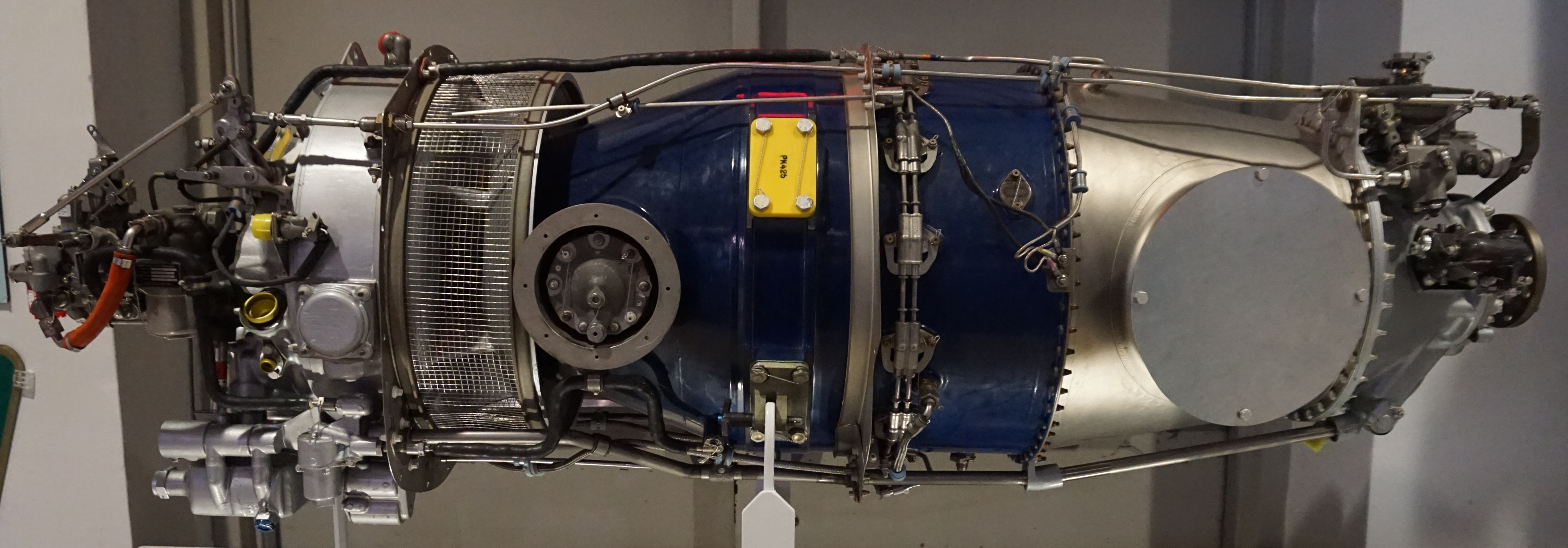 A Pratt & Whitney Canada PT6 turboprop engine on display at the Frontiers of Flight Museum at Dallas Love Field in Dallas, Texas (United States).